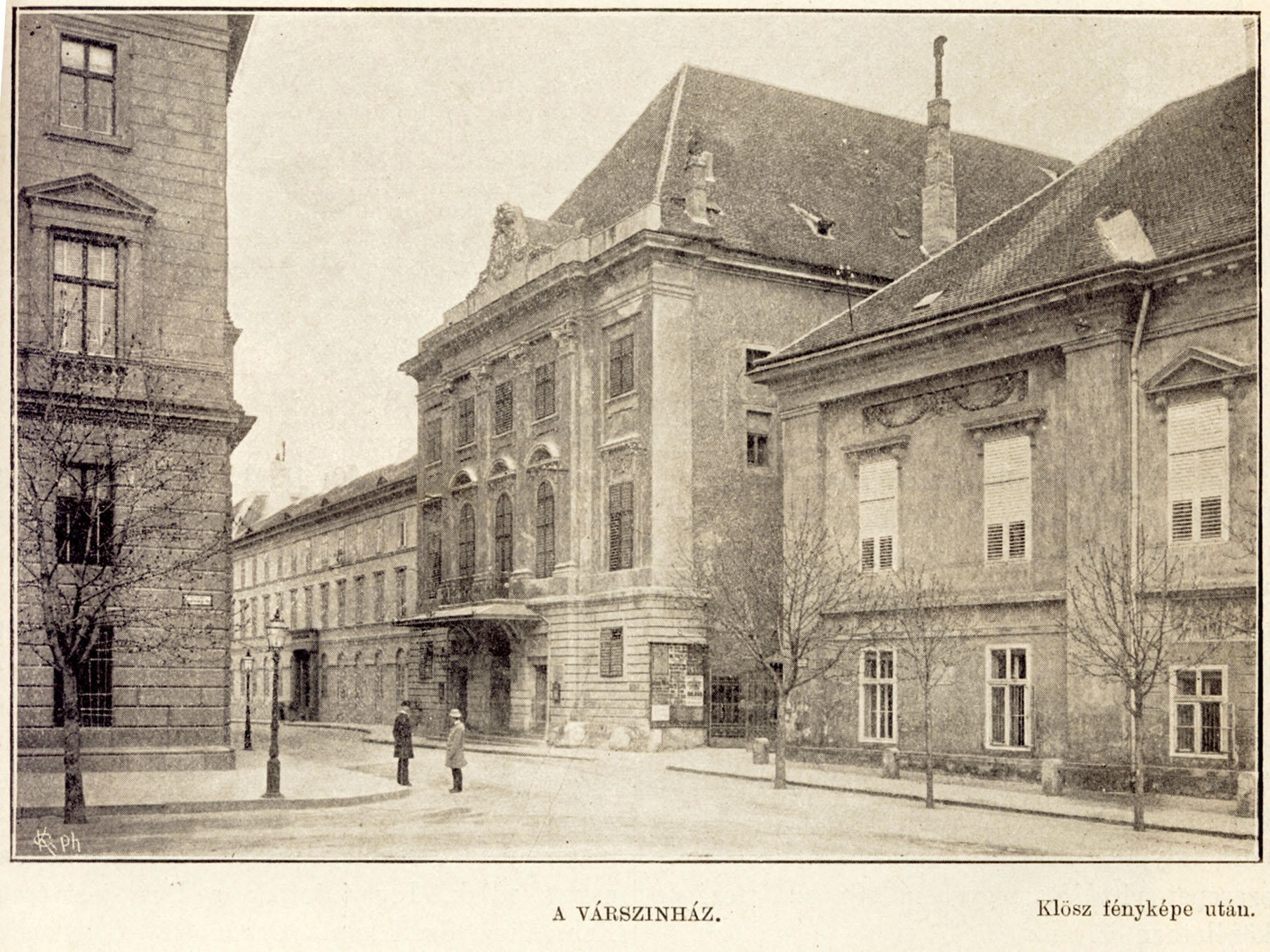 The Court Theatre of Buda